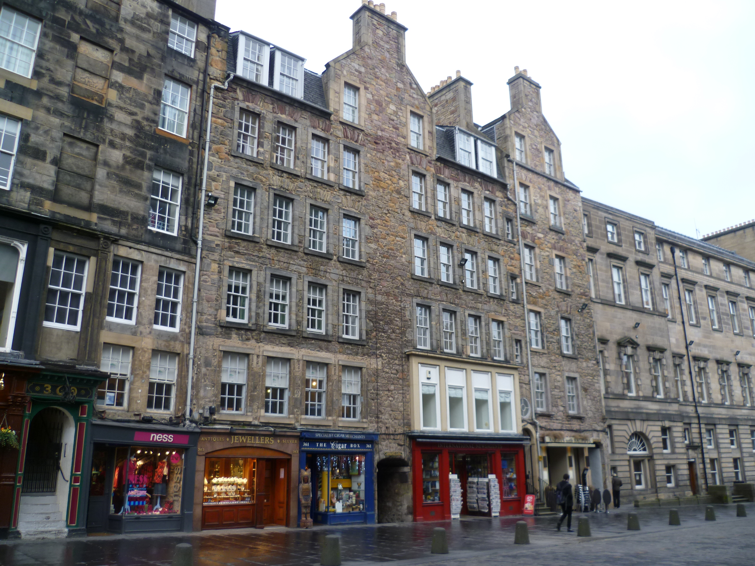 355-365 High Street, Residential buildings in the Old Town of Edinburgh.